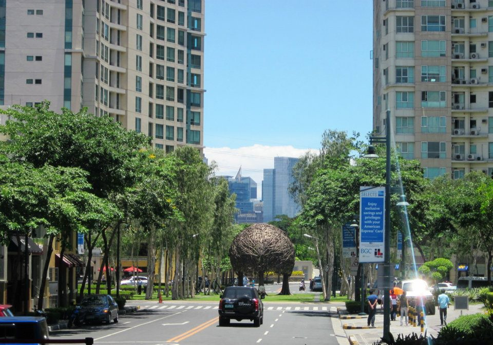 This is a monument in Burgos Circle at Bonifacio Global City, Taguig. Made up of three interlocking trees made of brass to signify the Earth's unifying nature.